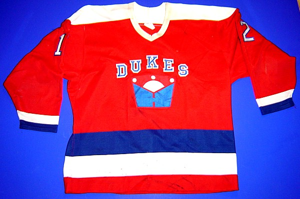 self taken photo